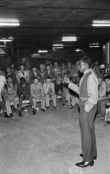 Unionists heard directly from Daniels of conditions faced by Aboriginal pastoral workers. Tribune/SEARCH Foundation, Mitchell Library, State Library of New South Wales